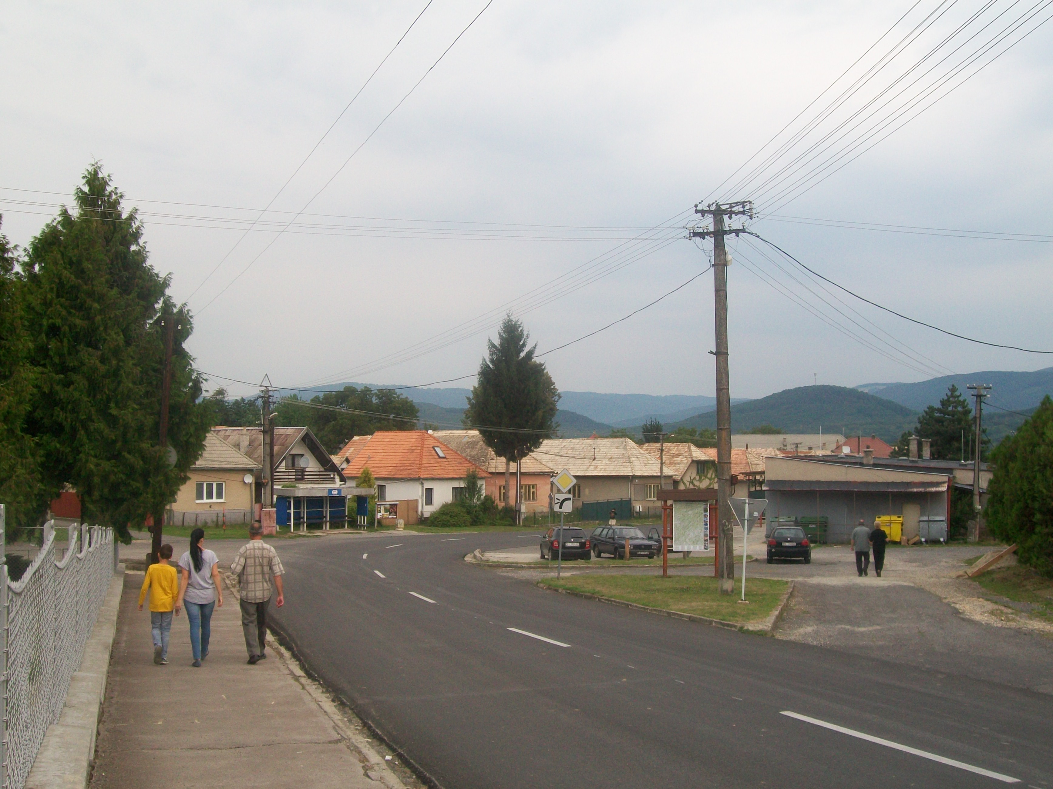 Street of the village RužináSlovenčina: Ulica obce Ružiná